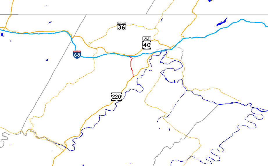 Map of Maryland Route 53